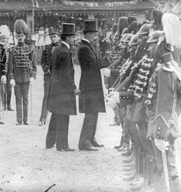 Decoration of combatants of the Military Police, by the President of the Parana State, Brazil, Carlos Cavalcanti de Albuquerque. Quarter of the General Command of the Military Police of Parana, on December 19, 1915.